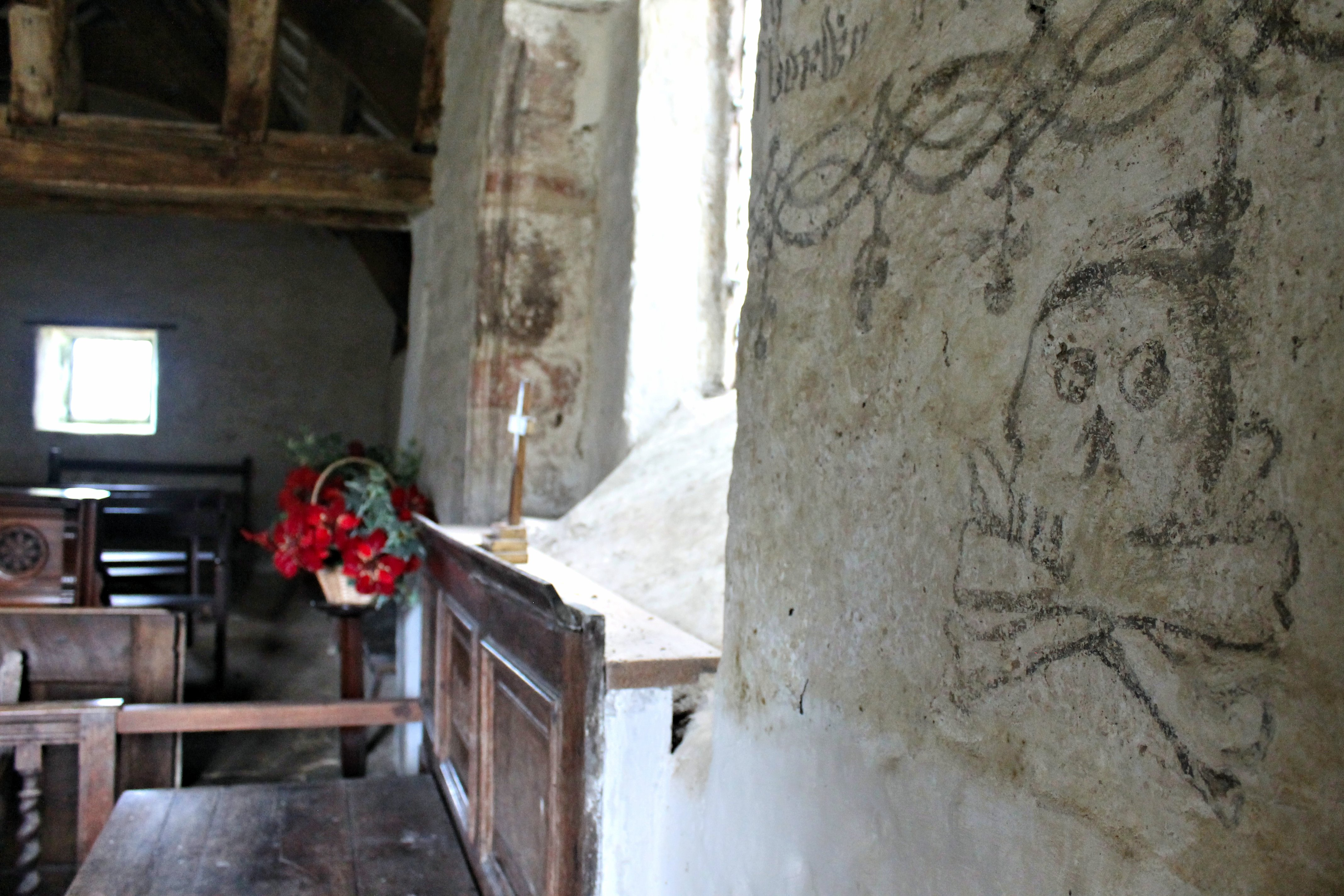 Old writting on the wall, near pulipit; with skull and crossed bones. The church of Celynnin, Llangelynnin, 3 miles south of Conwy, North Wales. Not Gwynedd. Grade I Listed Building.